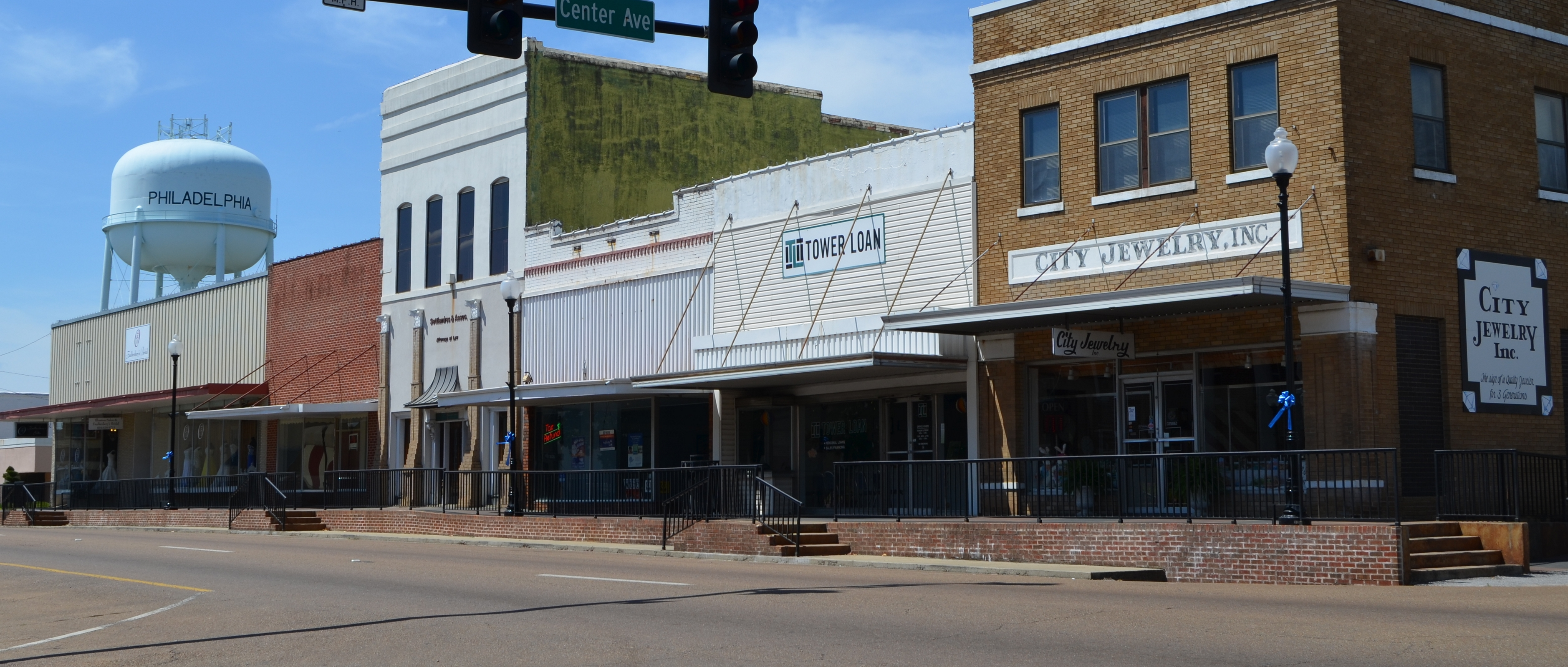 Beacon Street, Courthouse Square, Philadelphia, Mississippi.